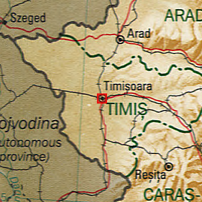 Map of Timișoara Municipality, Romania.